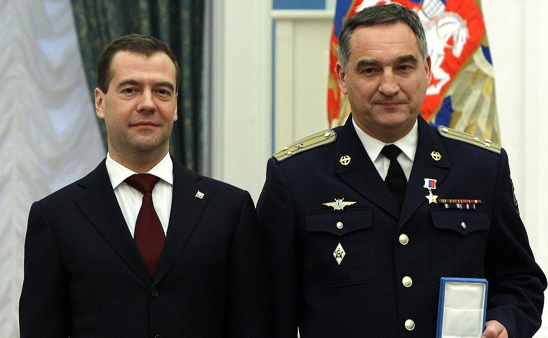 Test cosmonaut Alexander Skvortsov was awarded the title of the Hero of the Russian Federation and the honorary title of Pilot-Cosmonaut of the Russian Federation.